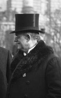 Cropped picture from a picture at wikimedia commons, donated by German Bundesarchiv. See File:Bundesarchiv_Bild_102-01176,_Heinrich_Held_(rechts).jpg for original.